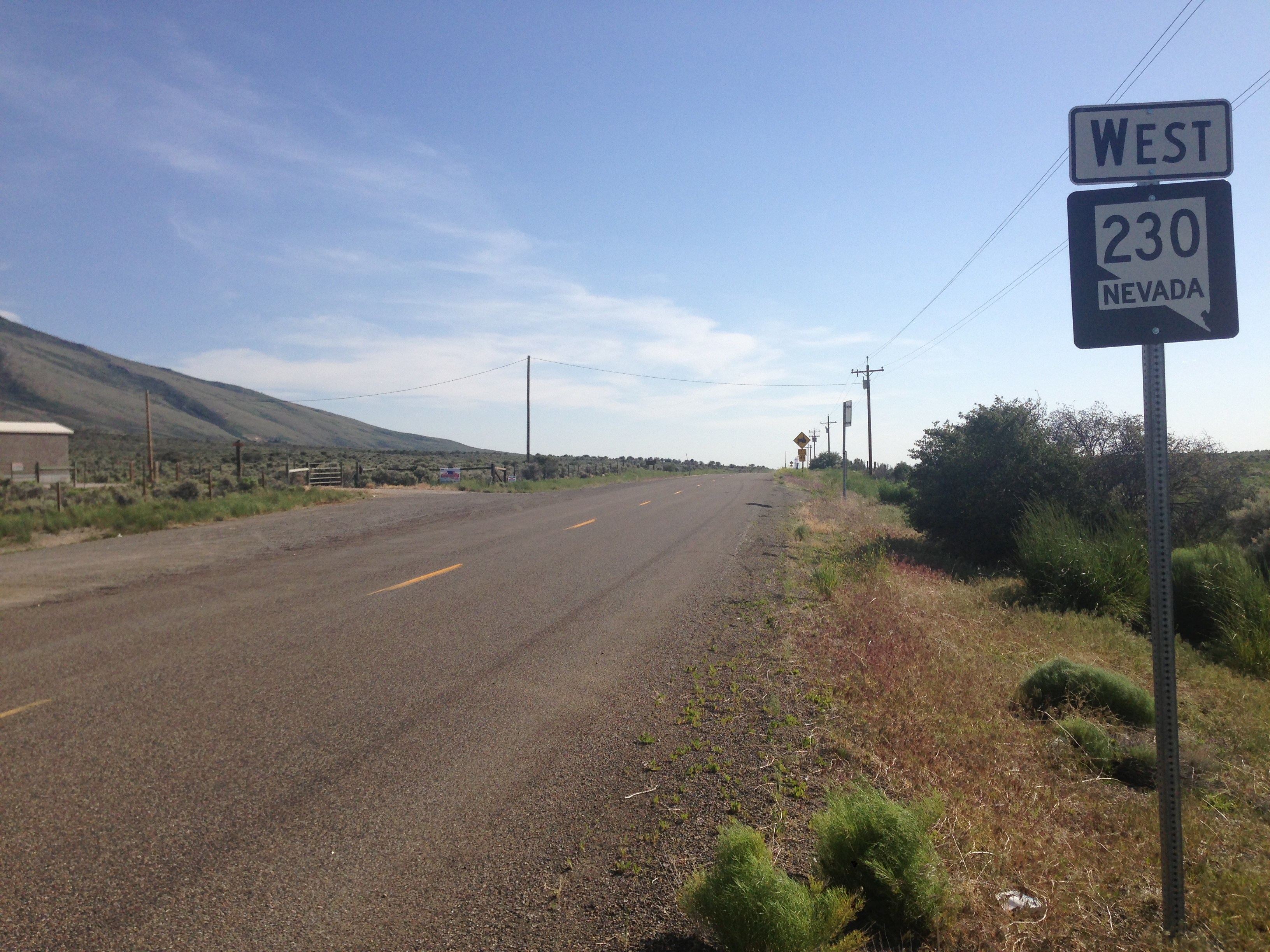 First reassurance shield along westbound Nevada State Route 230 (Starr Valley Road) in Welcome, Nevada